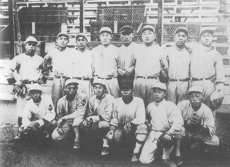 The first professional baseball team in Japan,日本運動協会（Nihon undou kyokai）